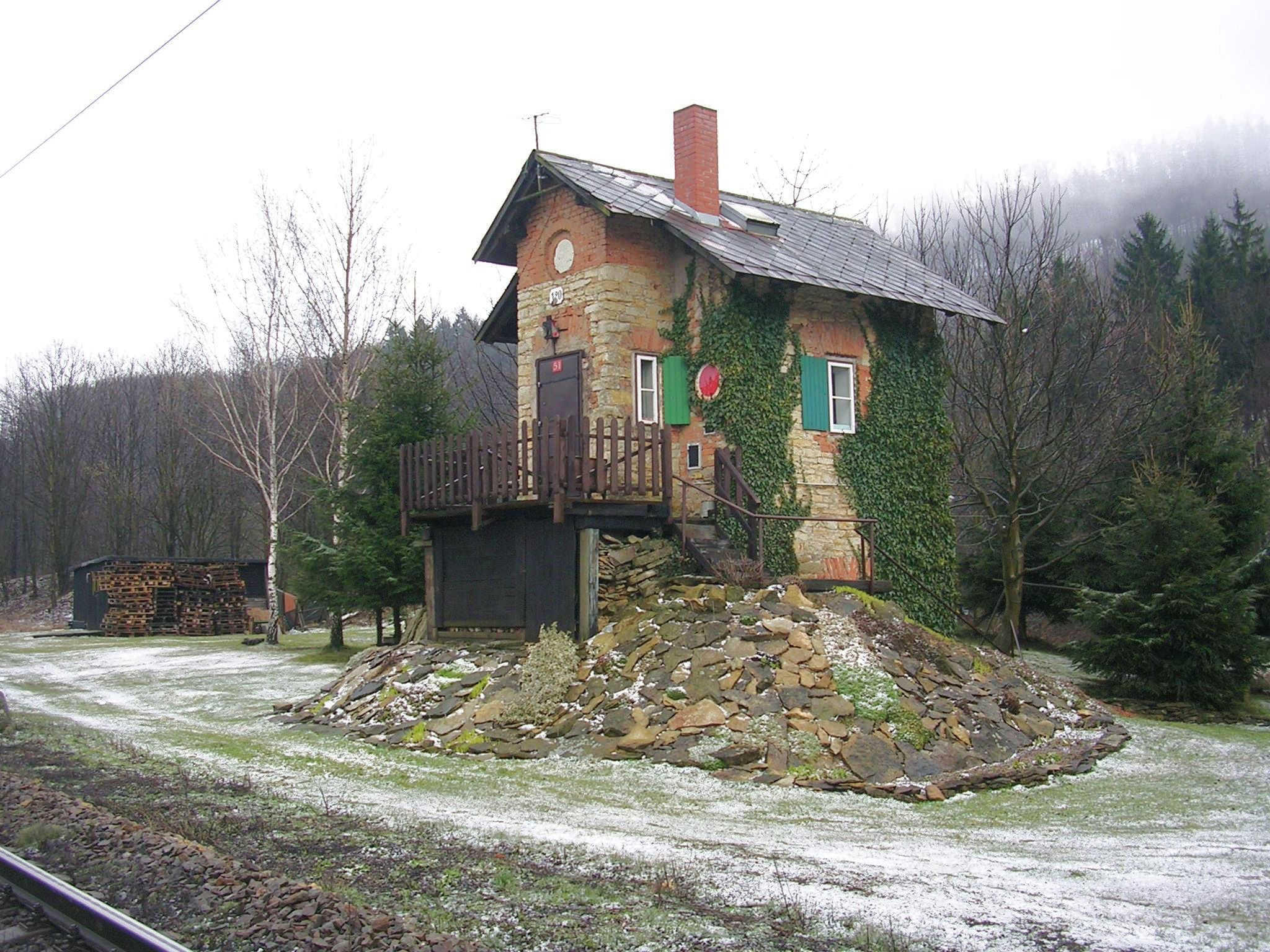 Railway guardhouse near train stop Bezpráví, the Czech Republic.